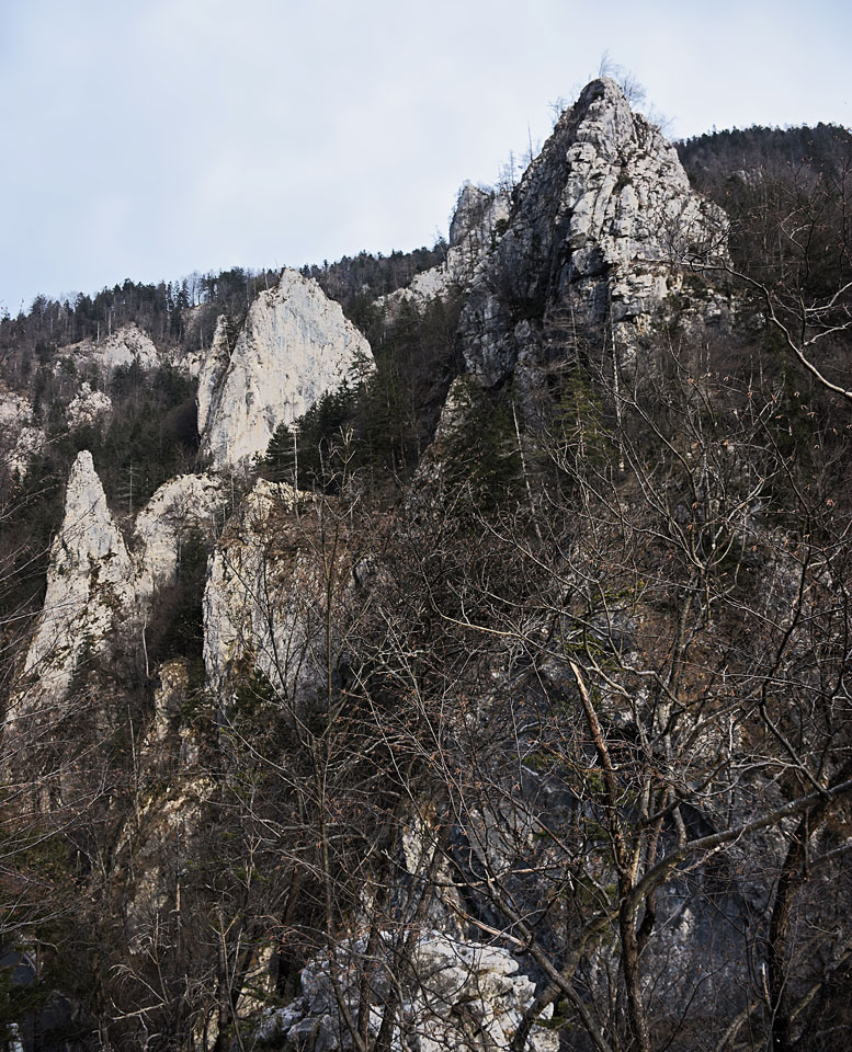 6 rock towers above Dovžanova soteska (gorge).